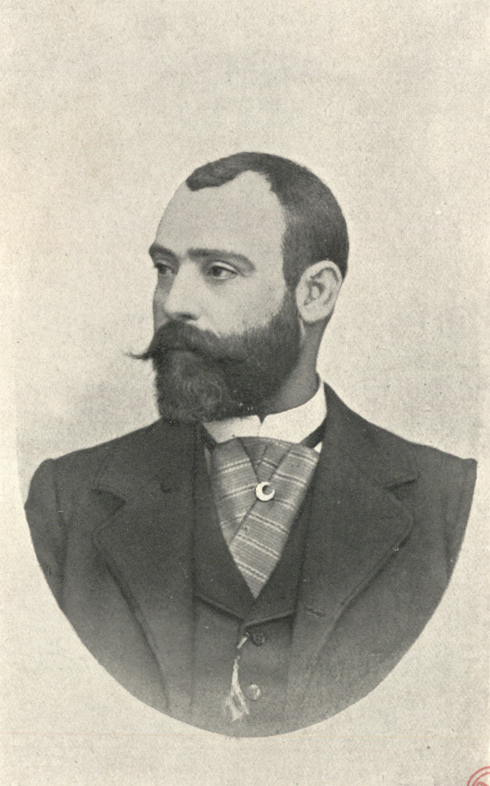 Photograph of Portuguese Republican politician Abílio de Jesus Meireles, included in the Album Republicano, published in 1908.